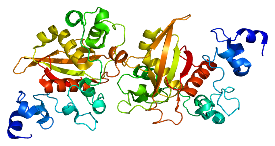 Structure of the NOTCH2 protein. Based on PyMOL rendering of PDB 2oo4.